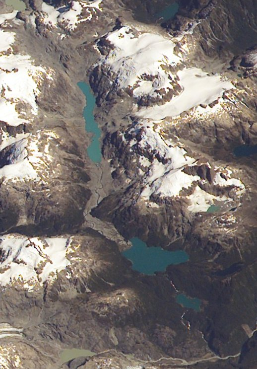 Lago Inexplorado, Parque Nacional Hornopirén, Chile. Cropped and rotated from original image.